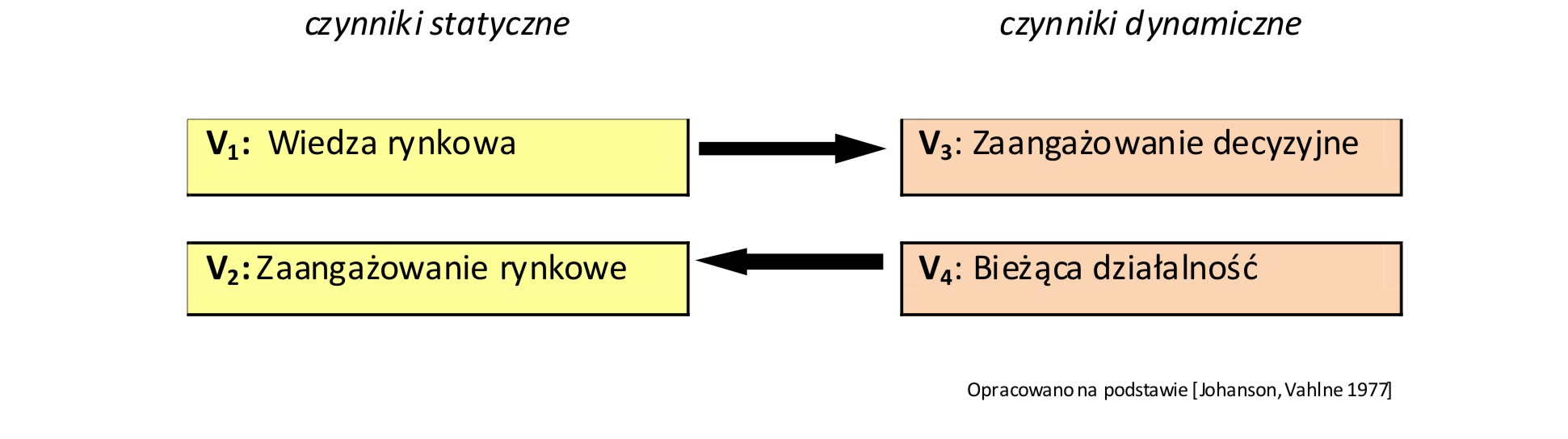 Uppsala Model